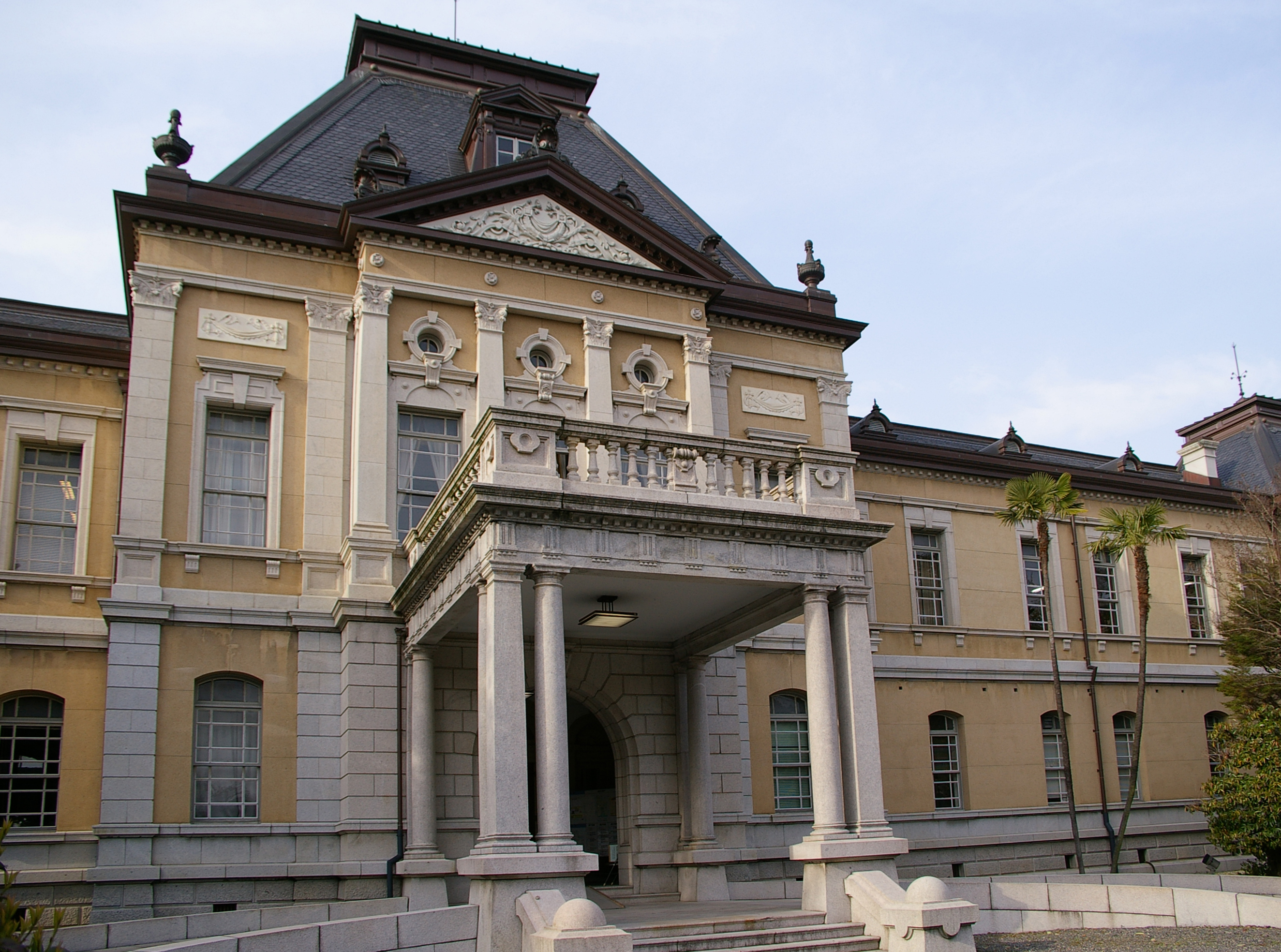 Photograph of Kyoto Prefectural Office former main building in Kamigyo-ku, Kyoto, Kyoto Prefecture, Japan.